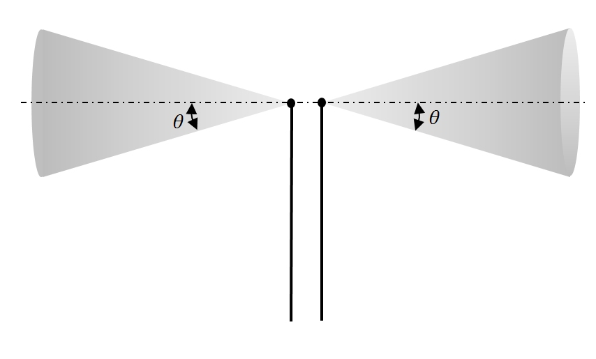 Biconical antenna theory.